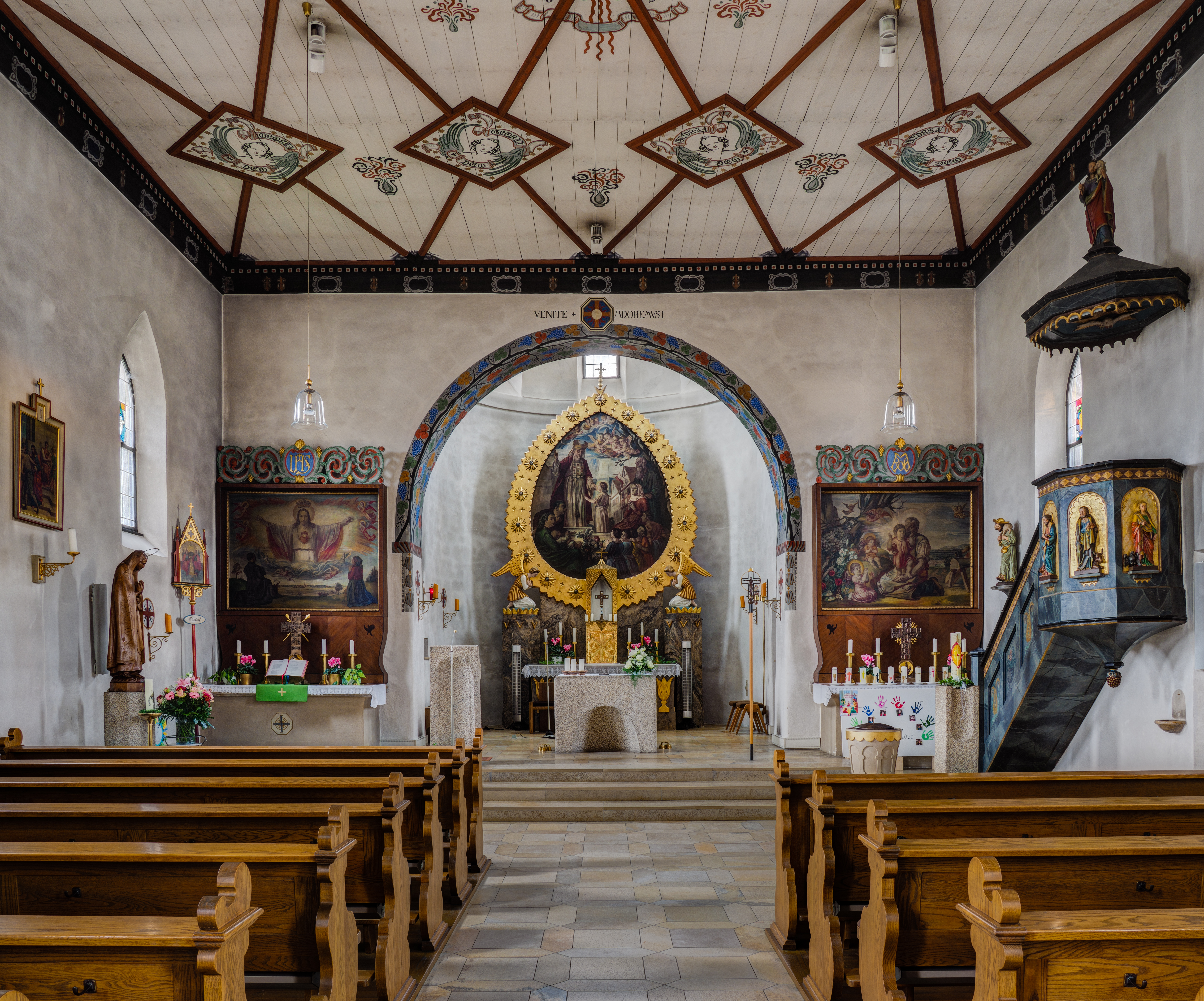 Interior of the Catholic parish church Mariä Opferung in Poxdorf near Forchheim